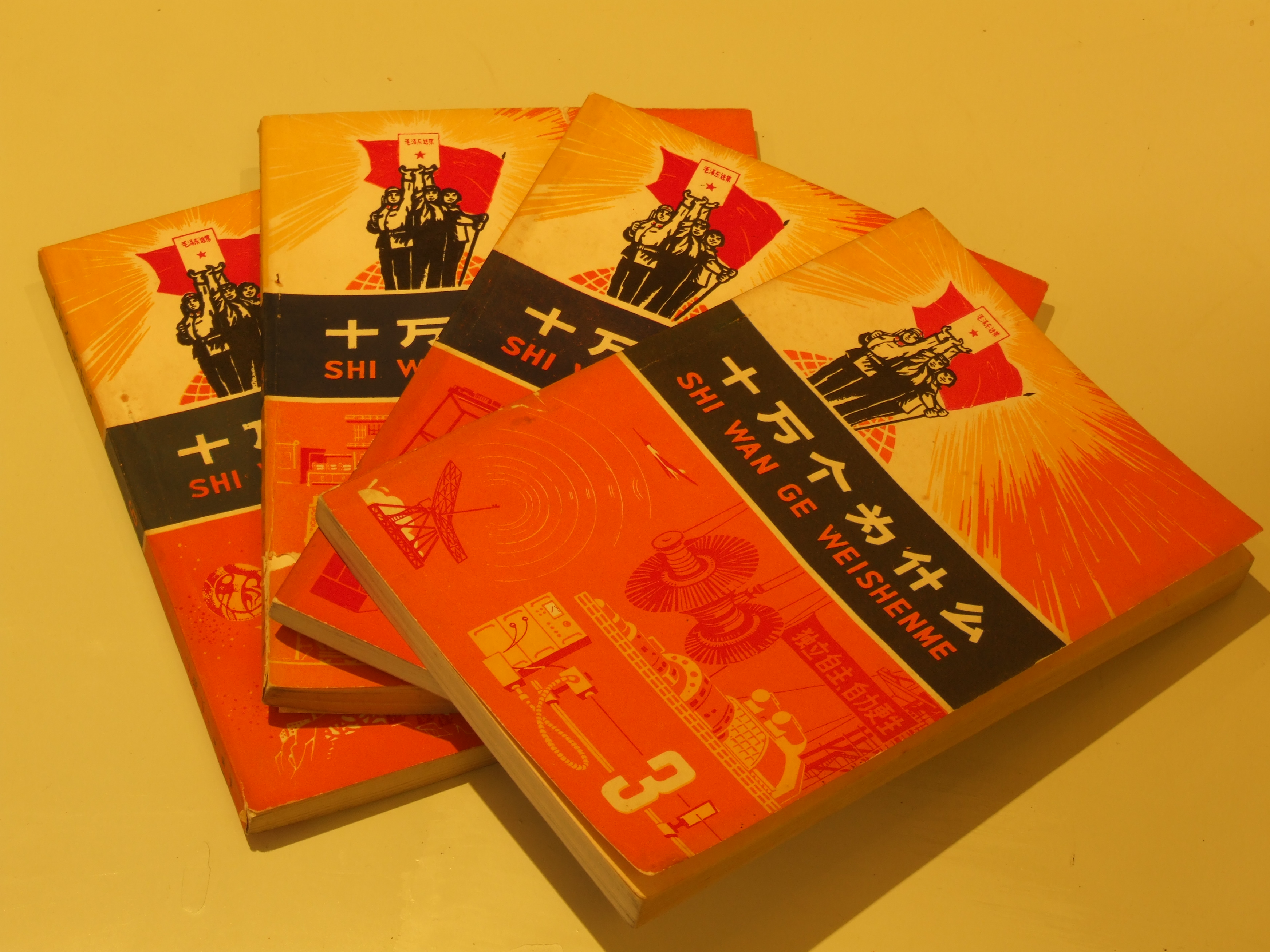 A Chinese science book series published in the 1970s